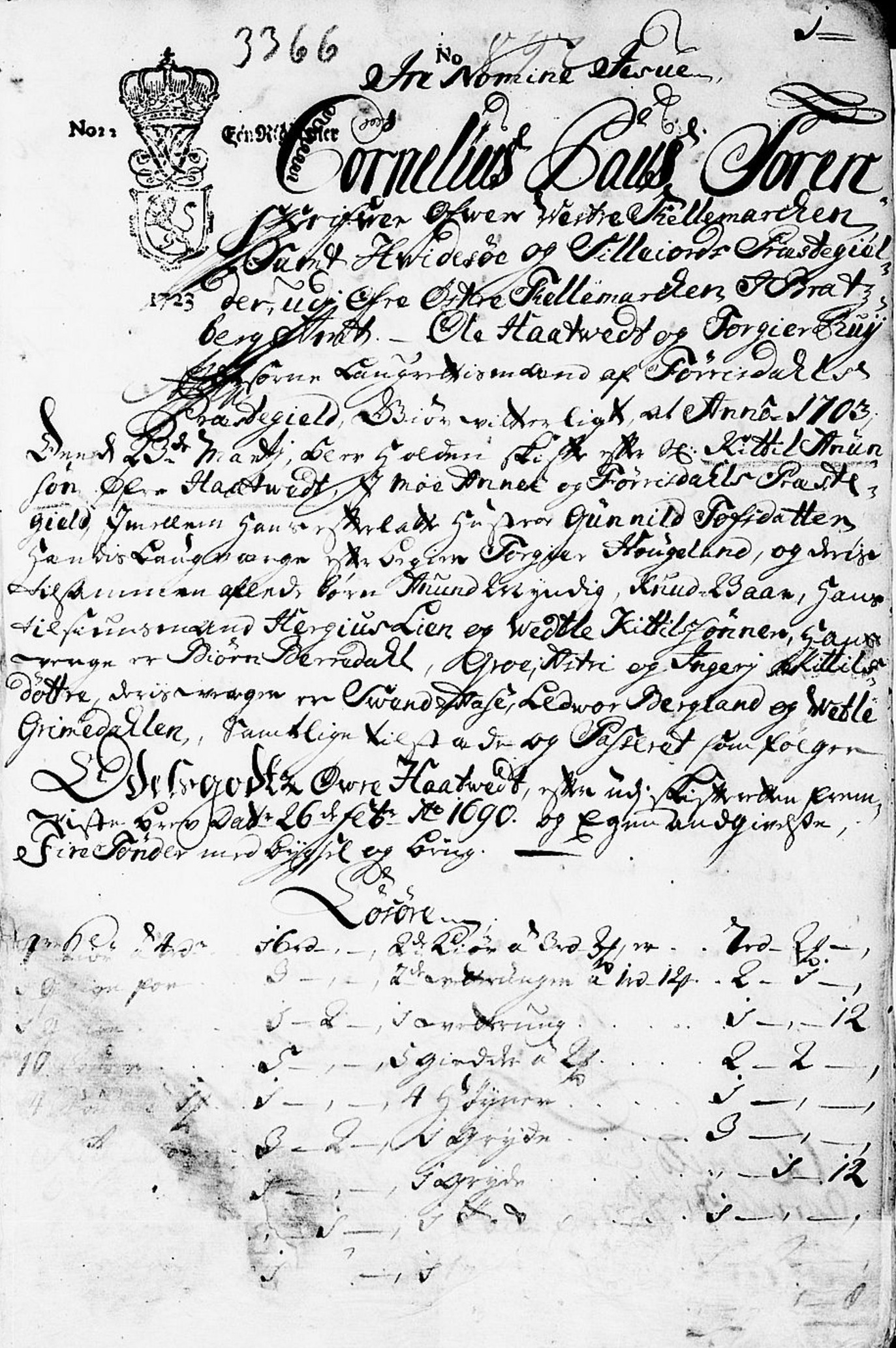 Øvre Telemarken vestfjelske sorenskriveri, skifteprotokoll 1703-1723, sorenskriver Cornelius Paus